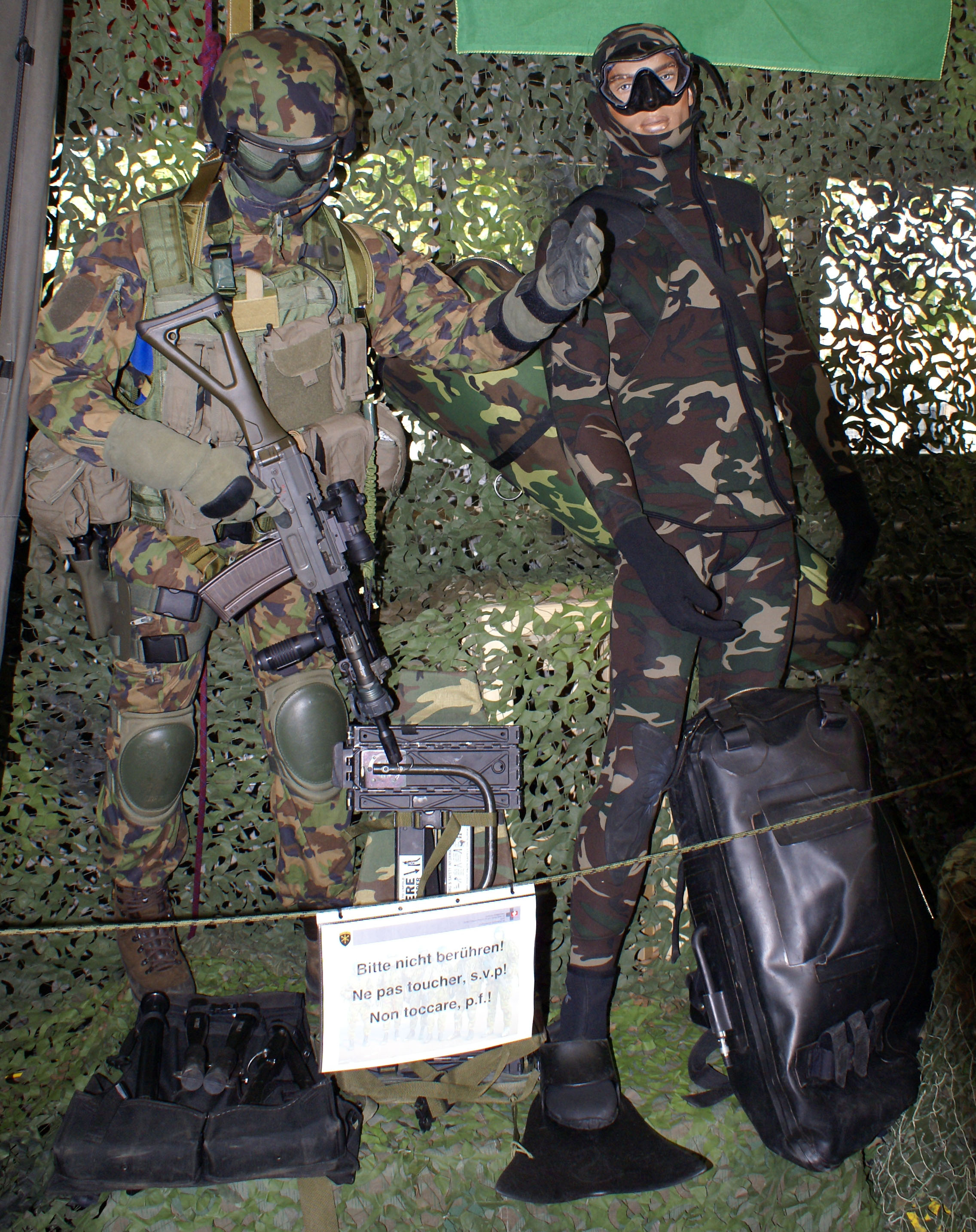 Swiss Army. Equipment of grenadier units with SIG SG 552 Commando.